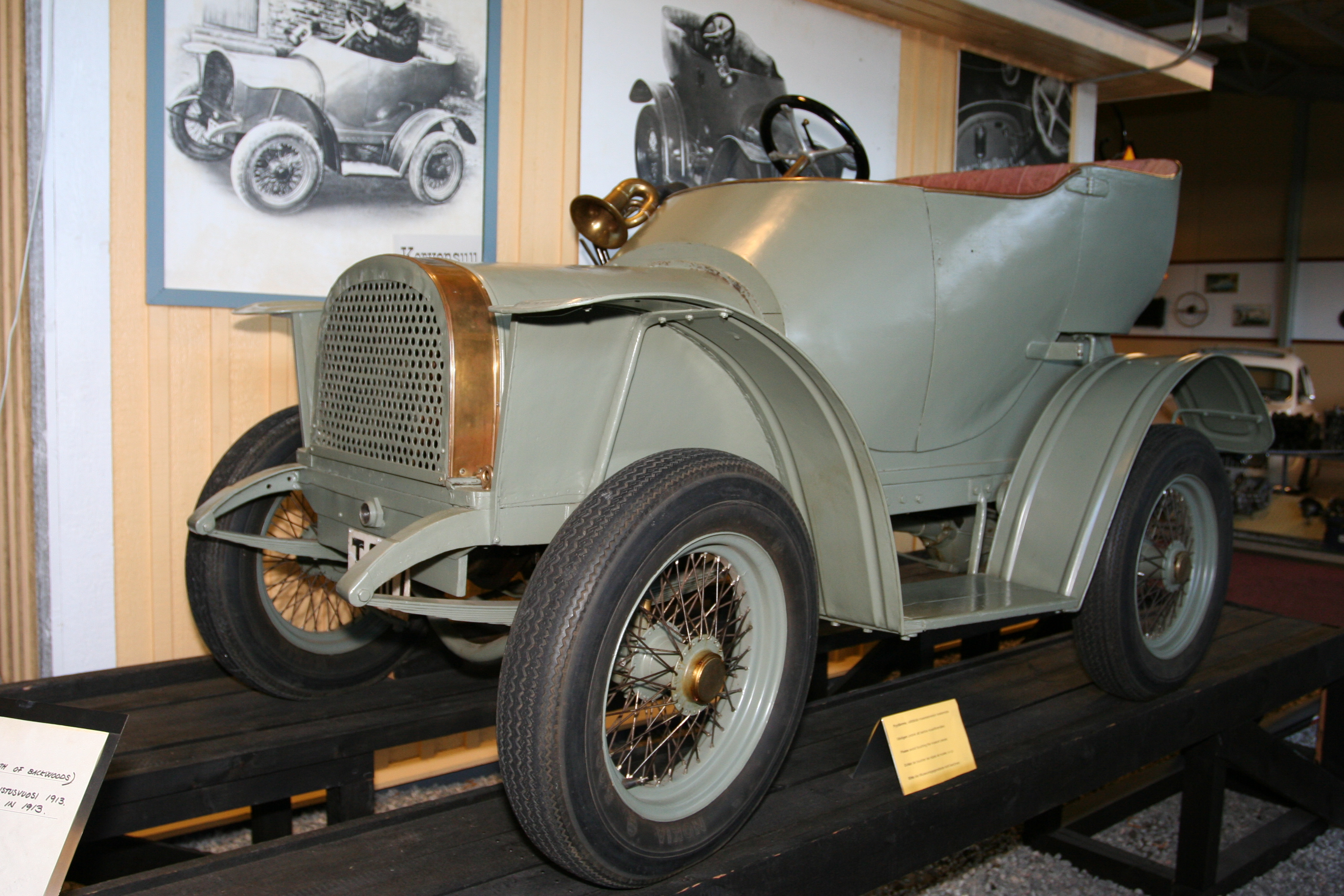 Korvensuu car, made in Finland